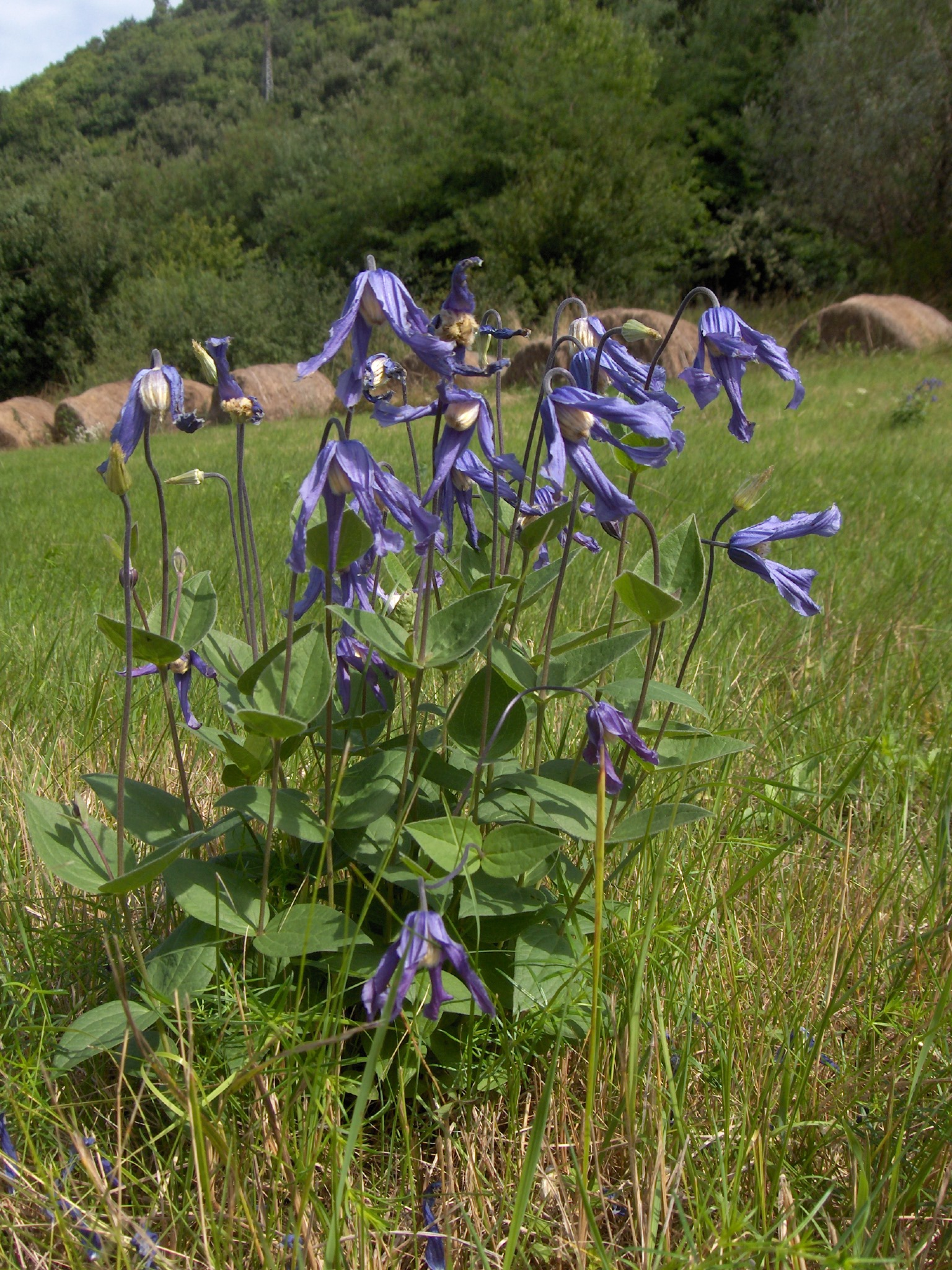 One of the many plants of Clematis integrifolia near Ipolydamásd.